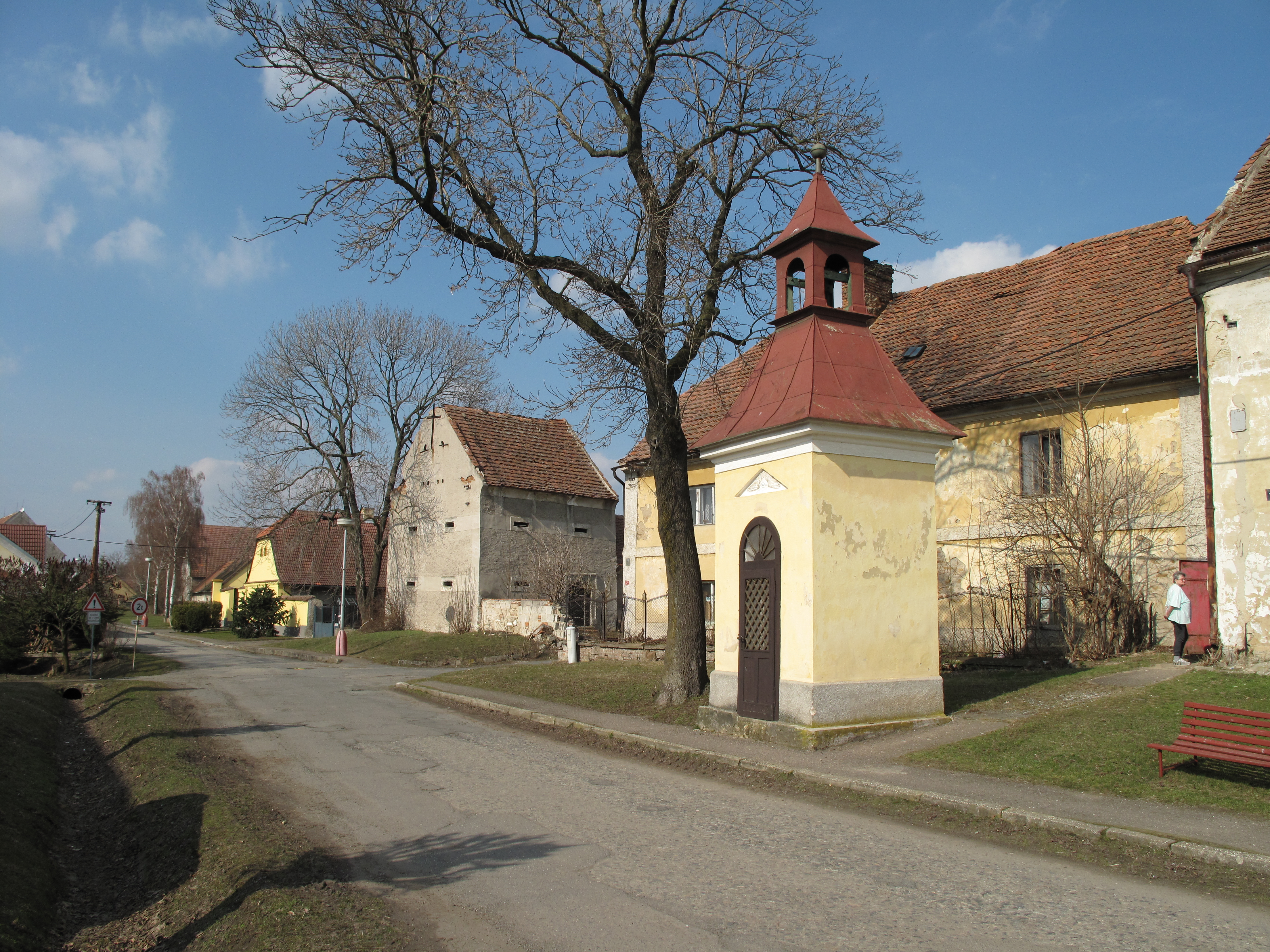 Oblong village square at Poličany village (Kutná Hora town); Kutná Hora District, Czech Republic. In the front the village chapel and in the background houses of the former collective farm yard. This photograph was taken within the scope of the 'Czech Municipalities Photographs' grant.